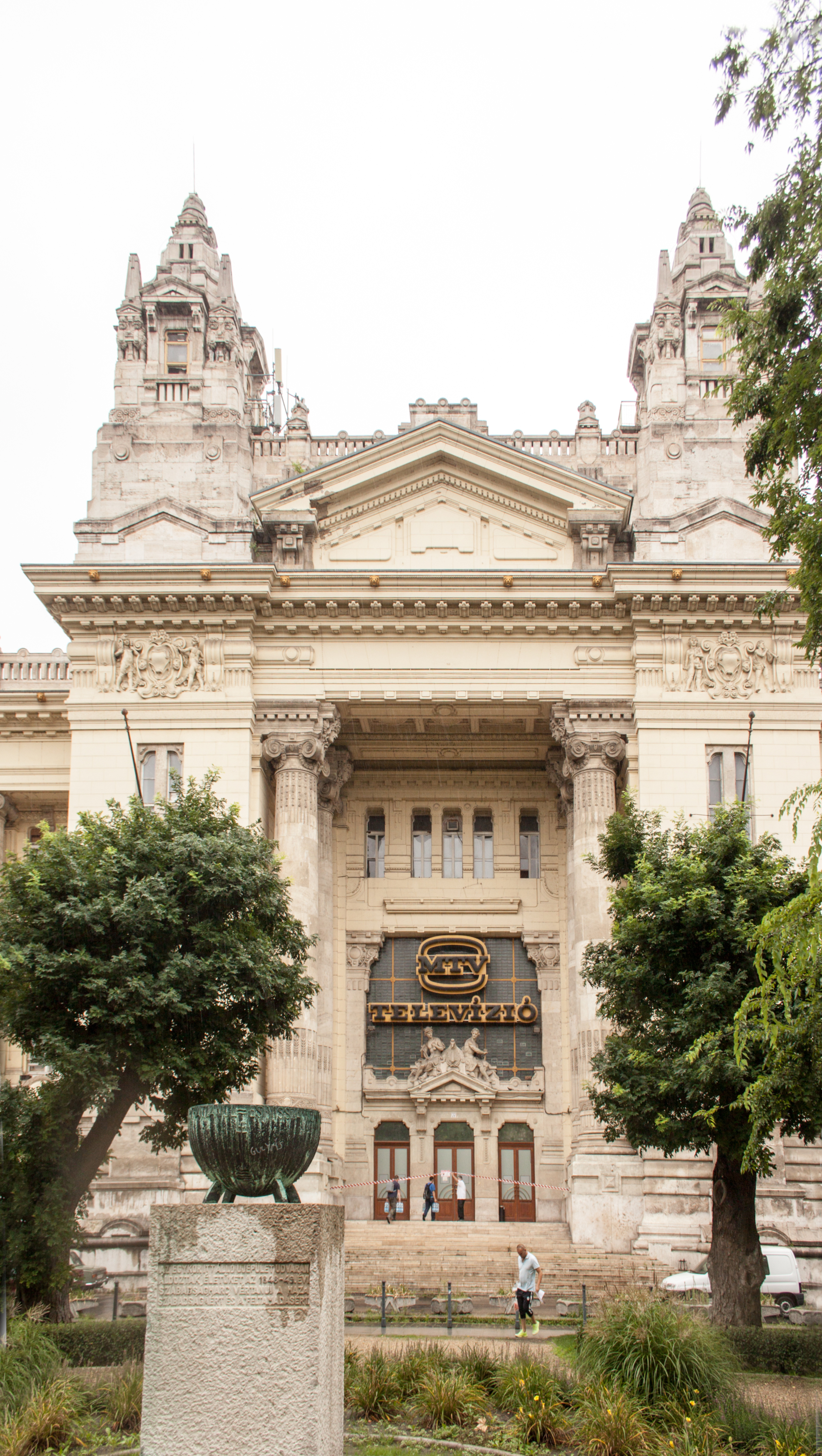 Stock Exchange Palace, Szabadság Square, Budapest